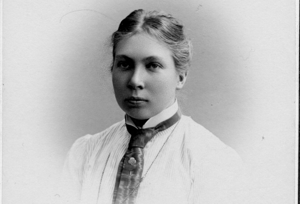 Maja Beskow, arts teacher at Umeå högre allmänna läroverk 1903–1937.